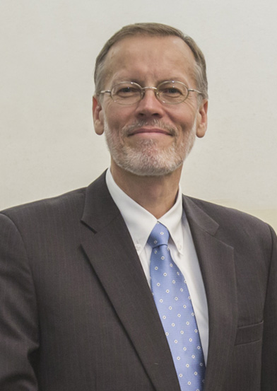 William Brent Christensen, newly appointed Director of the Taipei Main Office, American Institute in Taiwan (AIT/T).